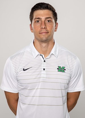 Picture